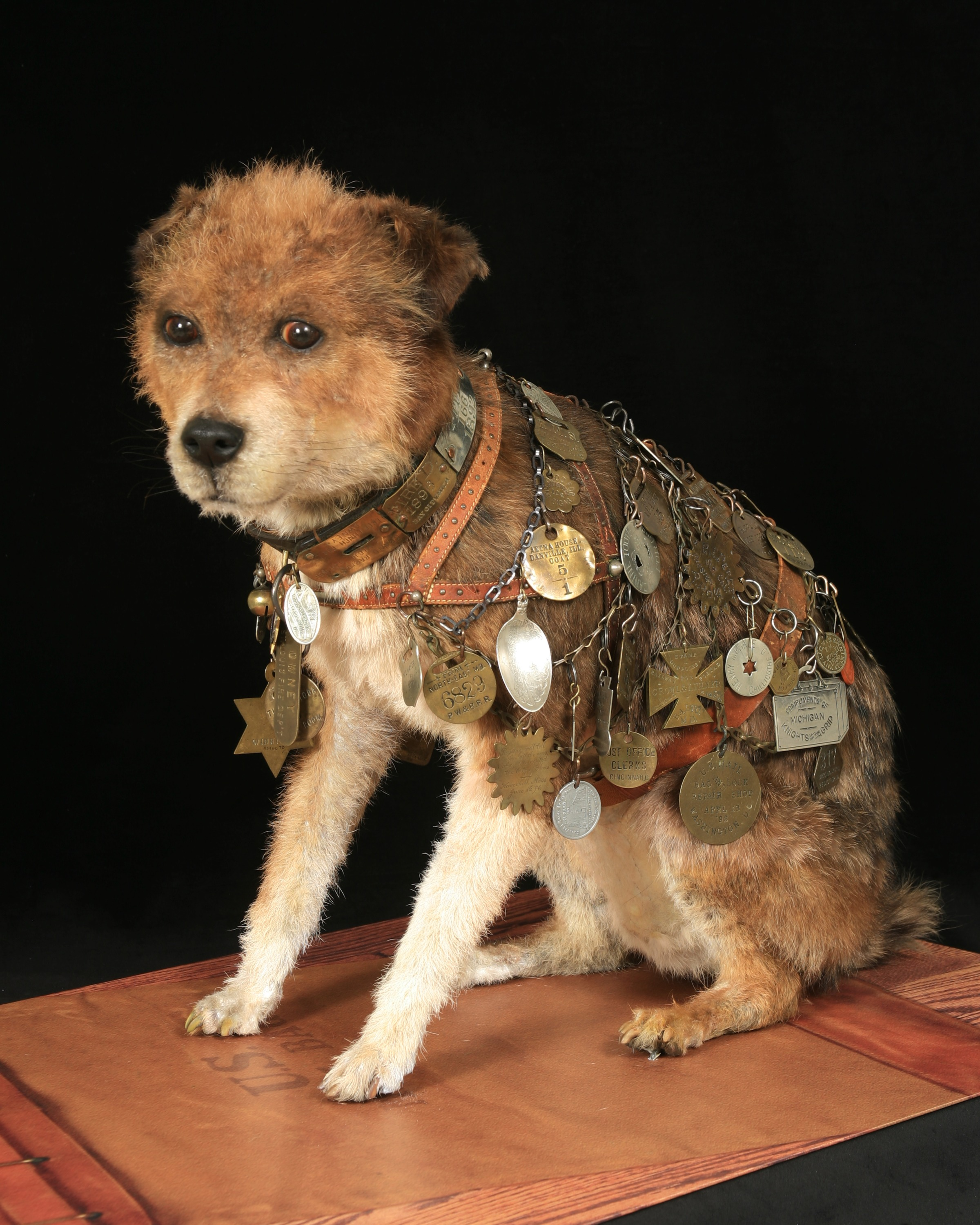 Smithsonian Institute record npm_0.052985.274.1